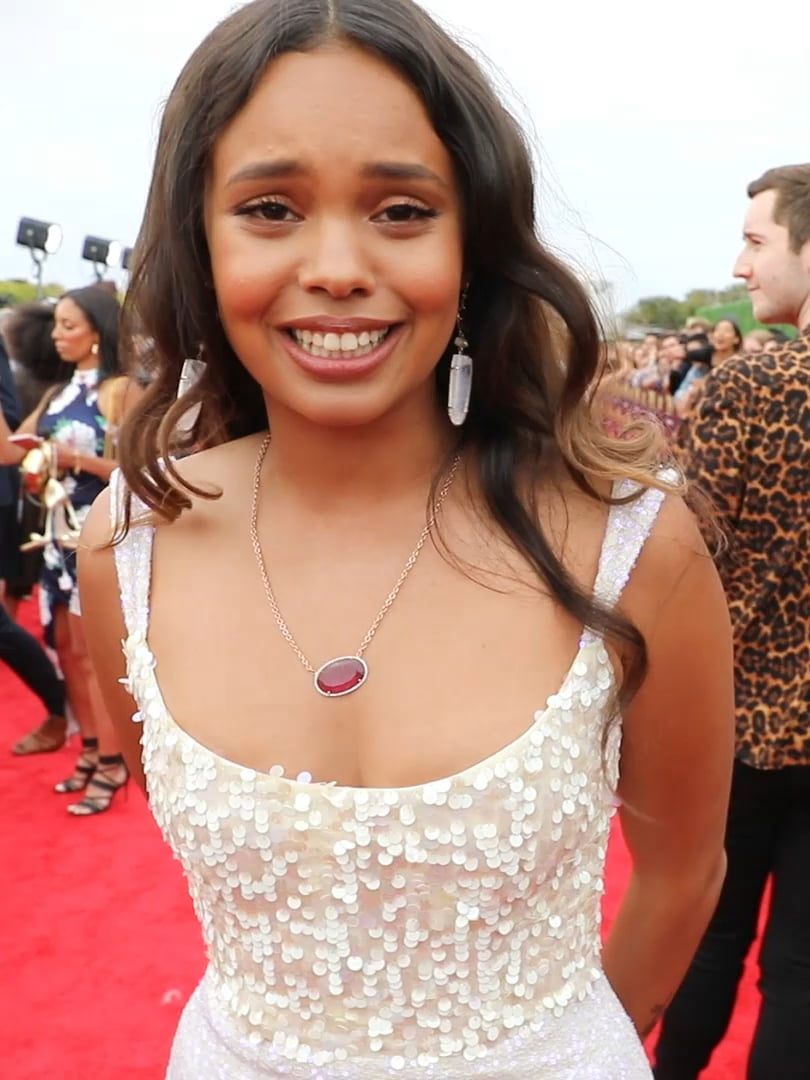 Alisha Boe at 2018 MTV Movie & TV Awards